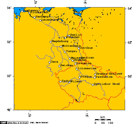 watershed of the river Elbe in Central Europe created with this online map creation tool. In case someone else wants to modify this image I will list the longitude and latitude of the cities I used to feed the tool. 8.6941, 53.861, Cuxhaven 9.4214, 53.7892, Glückstadt 9.9733, 53.5498, Hamburg 10.5483, 53.3741, Lauenburg 13.4119, 52.5238, Berlin 13.0398, 52.3951, Potsdam 11.6367, 52.131, Magdeburg 12.6339, 51.8668, Wittenberg 14.3276, 51.7613, Cottbus 12.9992, 51.5552, Torgau 14.4281, 51.181, Bautzen 13.4718, 51.1593, Meissen 13.7336, 51.0508, Dresden 11.587, 50.927, Jena 14.0083, 50.85, Lovosice 14.2054, 50.7747, Děčín 12.4969, 50.7148, Zwickau 14.1312, 50.5396, Litomerice 15.8123, 50.2063, Hradec Králové 14.373, 50.0664, Prague 15.7707, 50.0288, Pardubice 12.6322, 49.801, Tachov 13.4747, 49.7764, Pilsen 15.5799, 49.6075, Havlickuv Brod